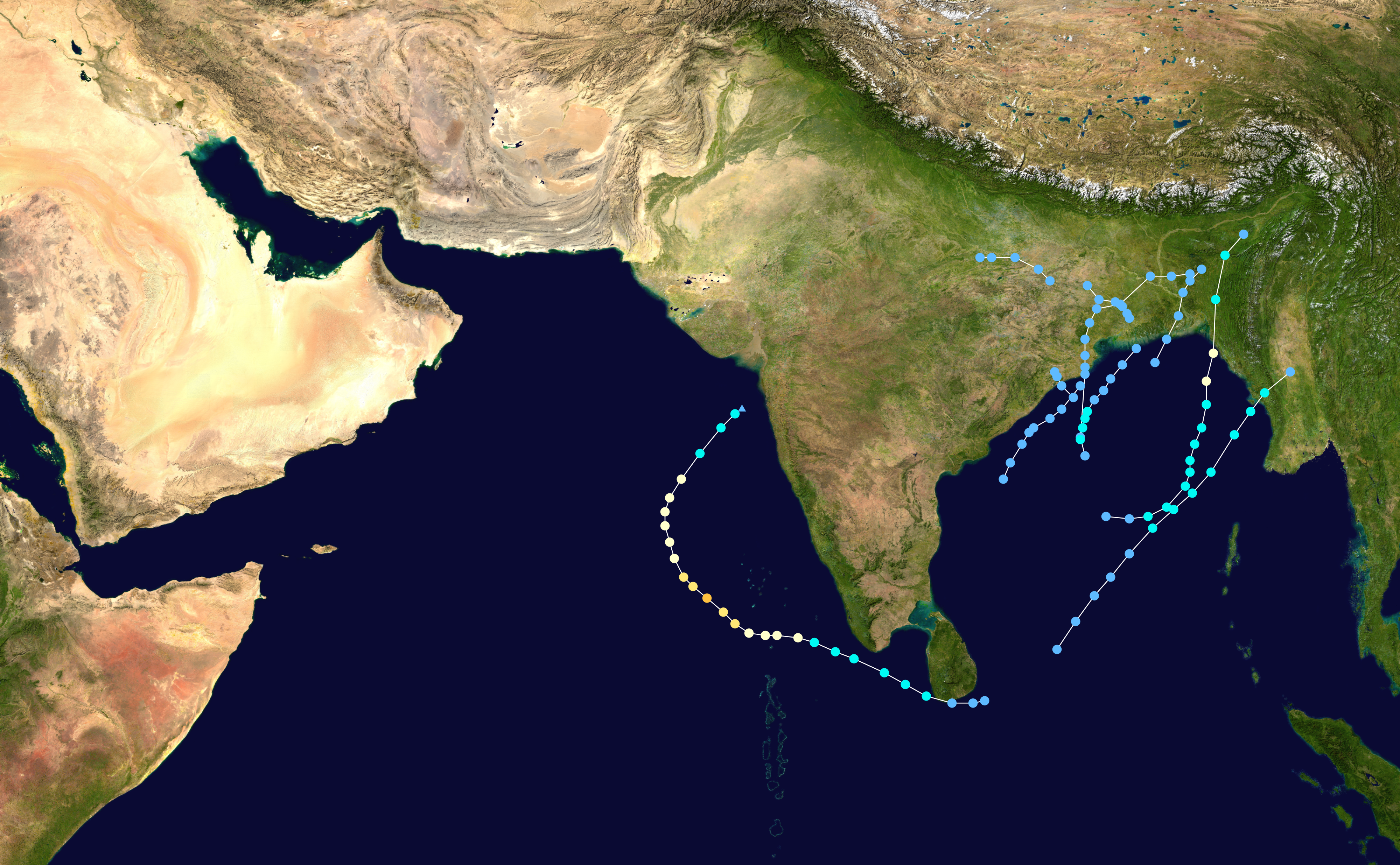 This map shows the tracks of all tropical cyclones in the 2017 North Indian Ocean cyclone season. The points show the location of each storm at 6-hour intervals. The colour represents the storm's maximum sustained wind speeds as classified in the Saffir-Simpson Hurricane Scale (see below), and the shape of the data points represent the type of the storm. Map generation parameters: --res 4000 --extra 1 --dots 0.2 --lines 0.04 --xmin 40 --xmax 100 --ymin 0 --ymax 35 Saffir–Simpson scale Tropical depression≤38 mph≤62 km/h Category 3111–129 mph178–208 km/h Tropical storm39–73 mph63–118 km/h Category 4130–156 mph209–251 km/h Category 174–95 mph119–153 km/h Category 5≥157 mph≥252 km/h Category 296–110 mph154–177 km/h Unknown Storm type Tropical cyclone Subtropical cyclone Extratropical cyclone / Remnant low / Tropical disturbance / Monsoon depression